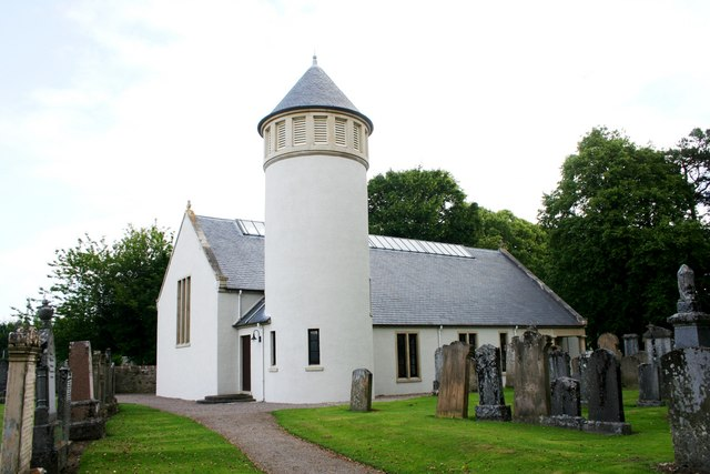 Knockando Church Rebuilt in 1993 after a fire Knockando is a modernised parish church serving a distillery dominated parish.